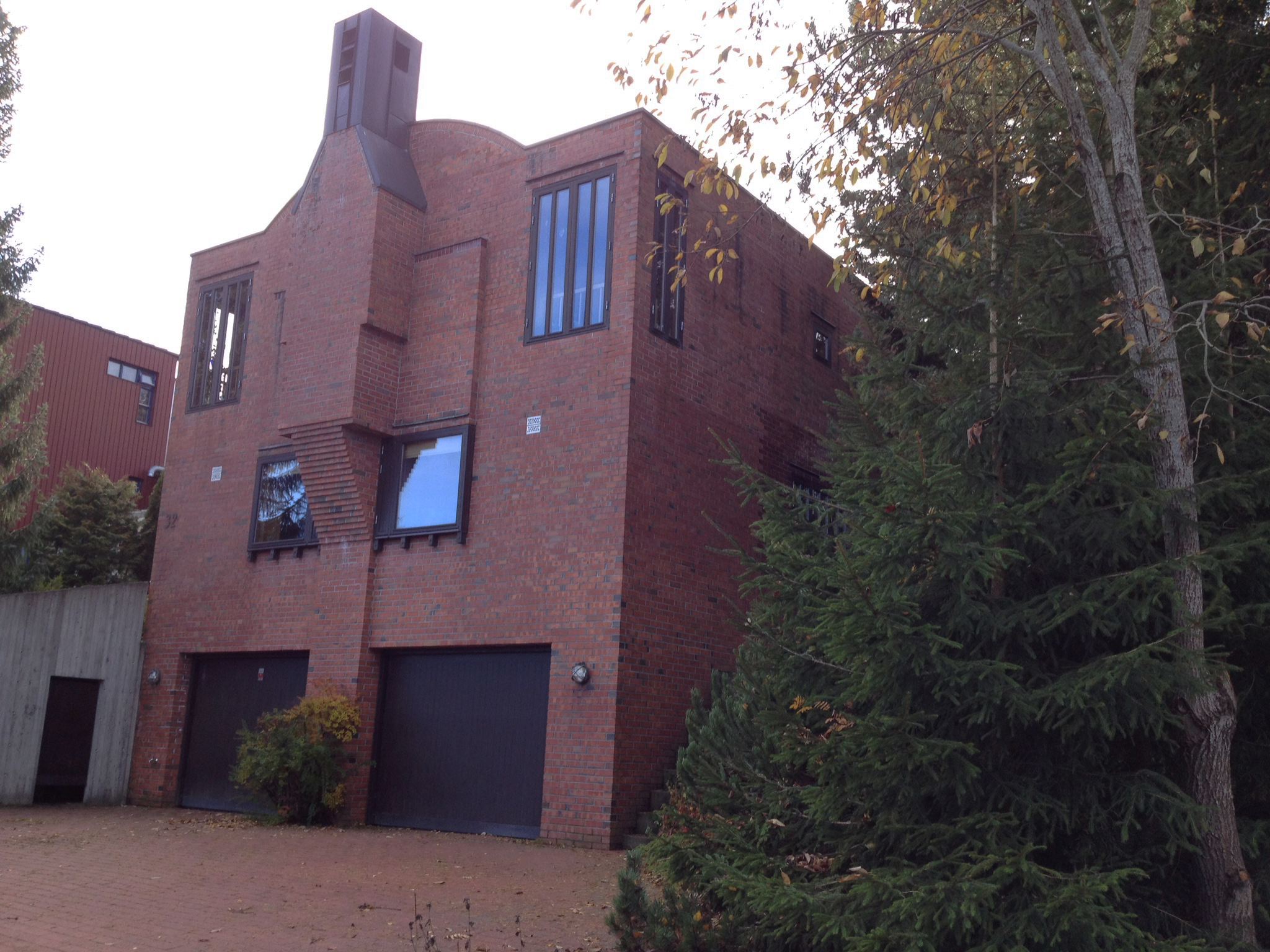 Brick villa designed by the Norwegian architect Sverre Fehn. Erected in 1986–87, in connection with a housing exhibition. North East facade. Sleiverudlia, Bærum, Norway